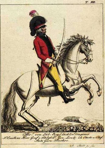 Frederik Carl Christian Ulrich Ahlefeldt (1742-1825), Danish Count and General